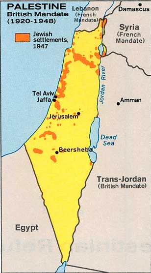 Jewish settlements in 1947